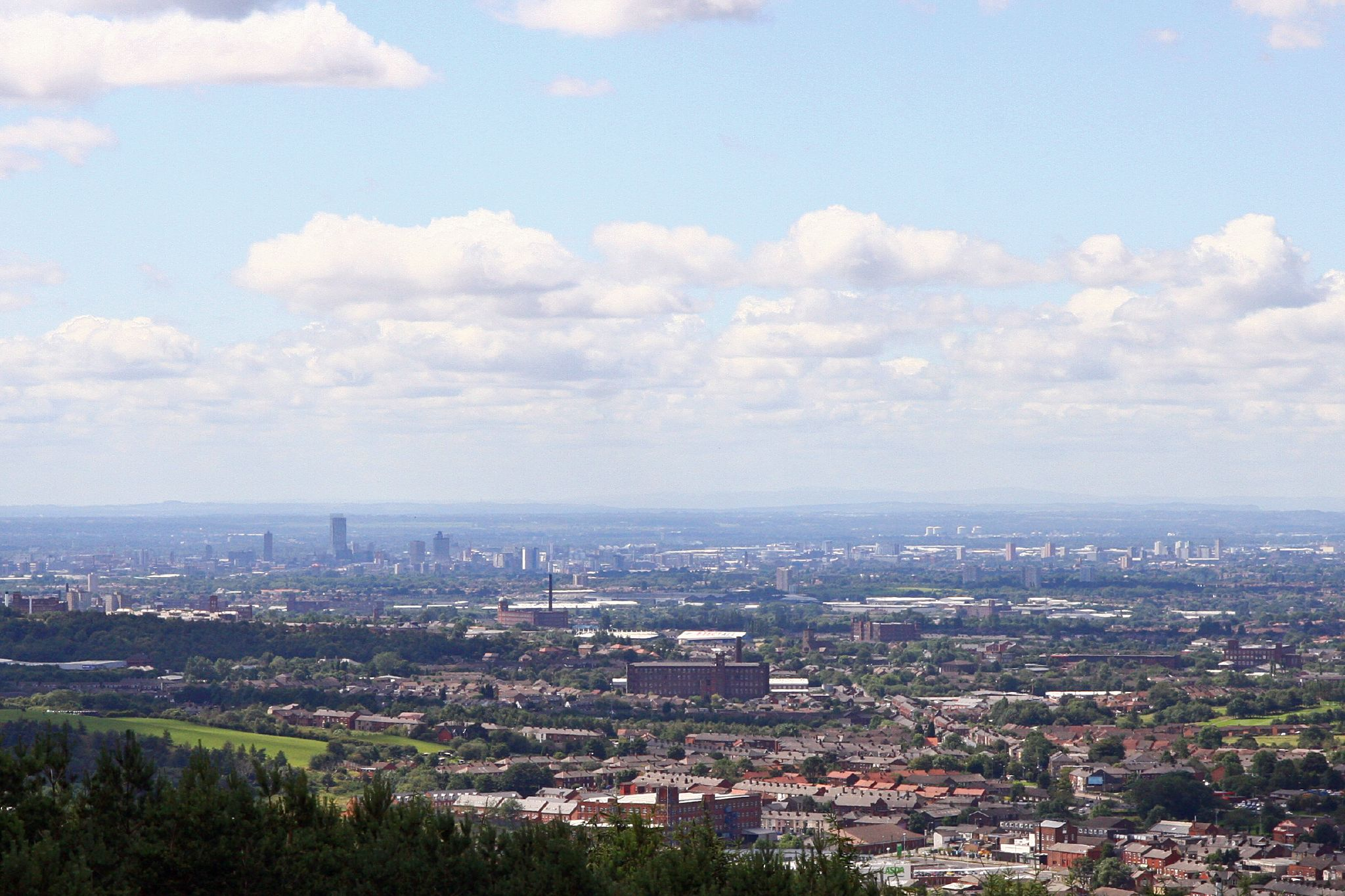 A photograph of the Greater Manchester Urban Area from Crompton Moor. Shaw and Crompton is in the foreground, Oldham and Royton are in the mid-ground, Failsworth and Manchester are in the background (to the left) and Salford is in the background (to the right). The Welsh mountains are on the horizon.